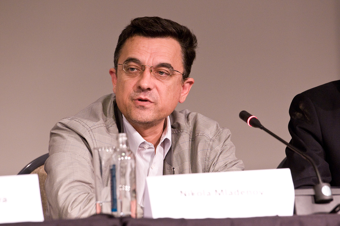 Nikola Mladenov during the Freedom and privacy on the Internet 2012 international conference in Skopje